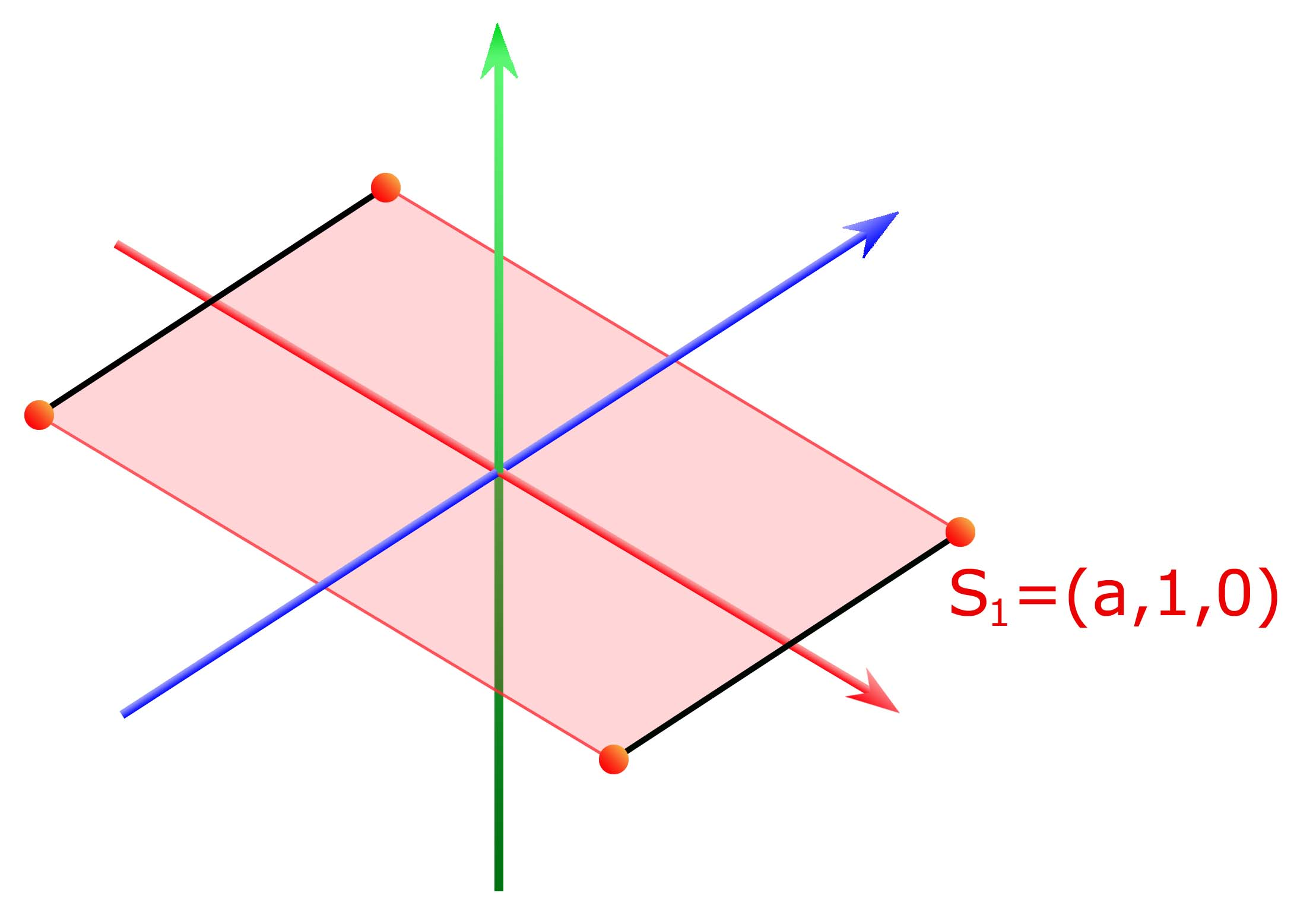 Computation of the 12 vertices's coordonnates. Step 1